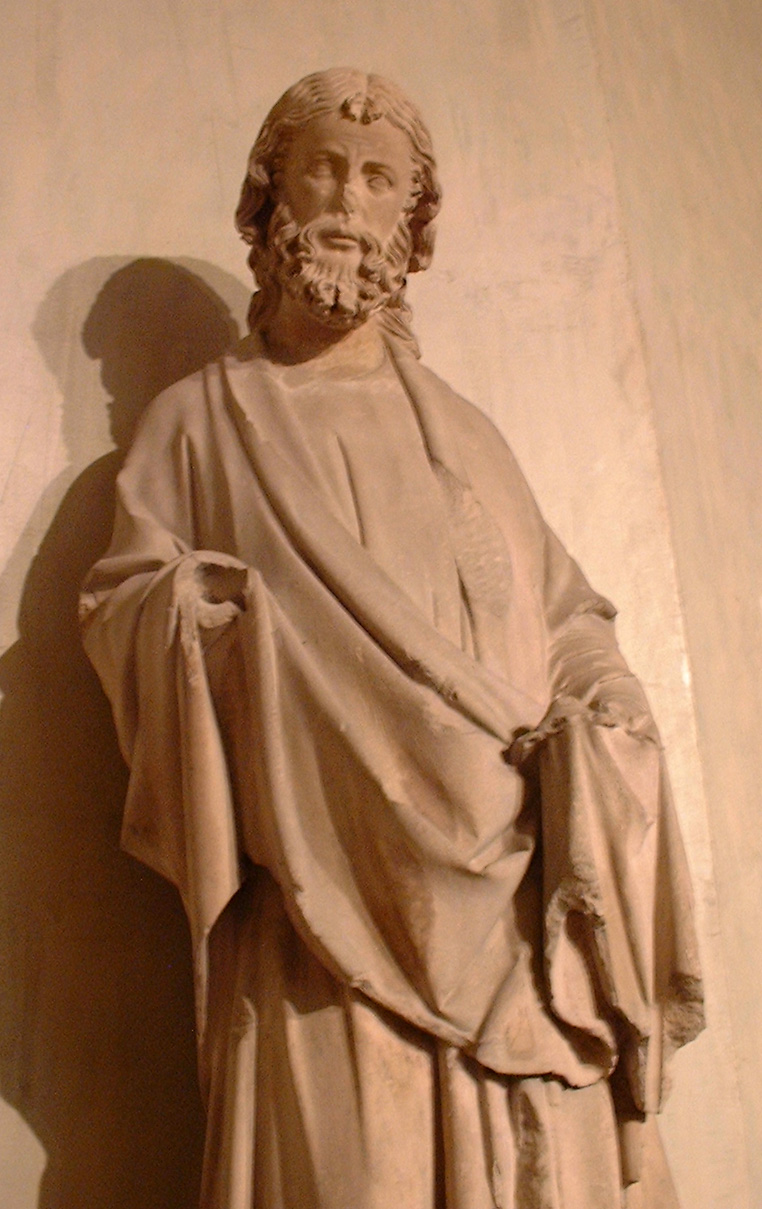 So-called "melancholic" apostle. Polychromic stone, Paris, 1243–1248. From the interior decoration of the high chapel of the Sainte-Chapelle, Paris.